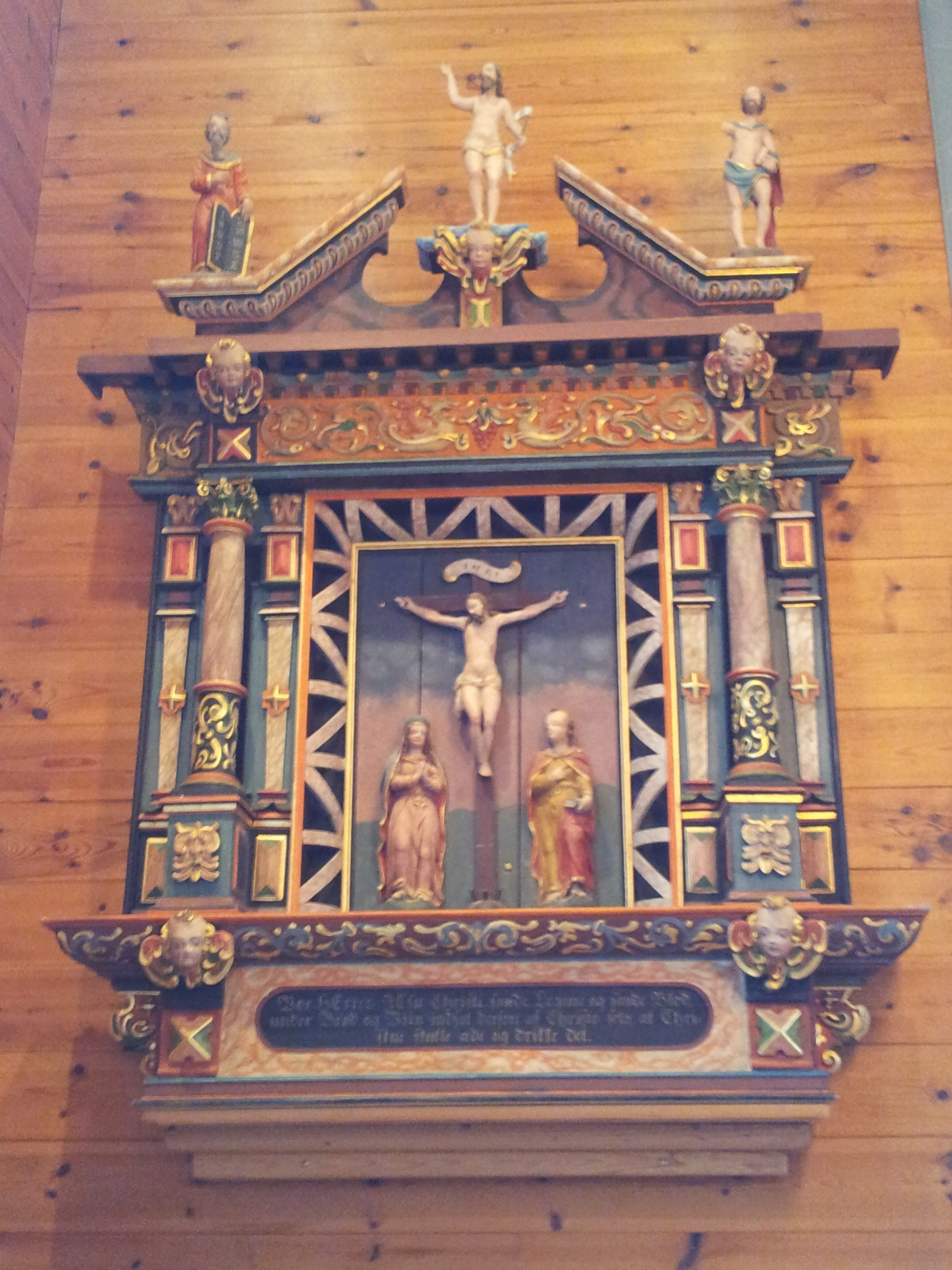 Old altarpiece in Austrheim church, Austrheim, Norway